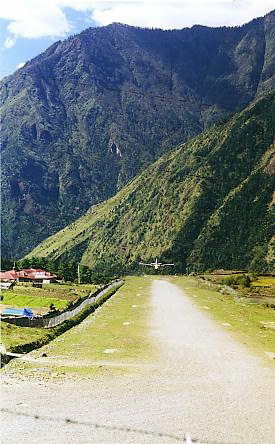 STOL aircraft landing at Lukla Airport. Image taken with Minolta MAXXUM SPxi auto-focus SLR, fitted with a Minolta 35-80 mm power zoom lens.